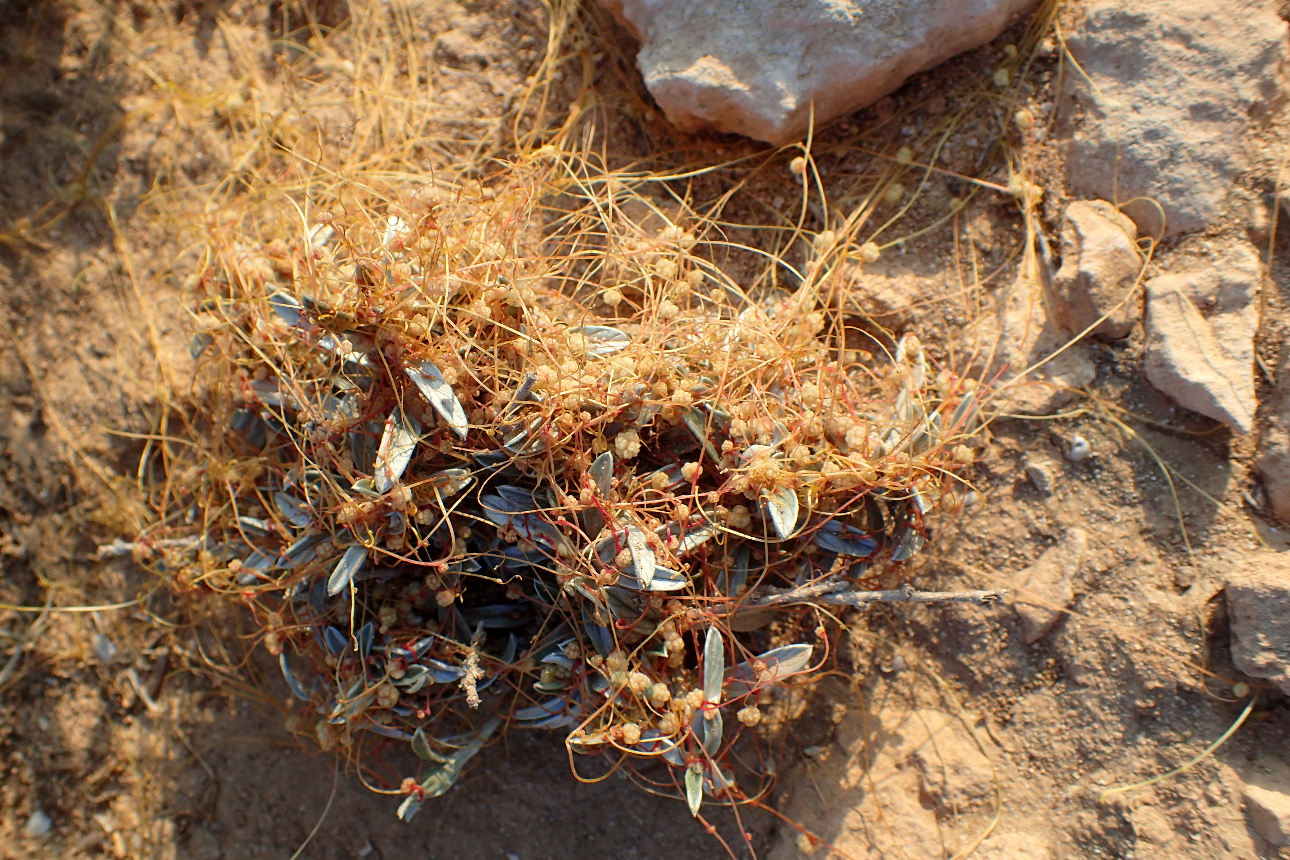 Cuscuta palaestina on Kavo Gkreko, Cyprus